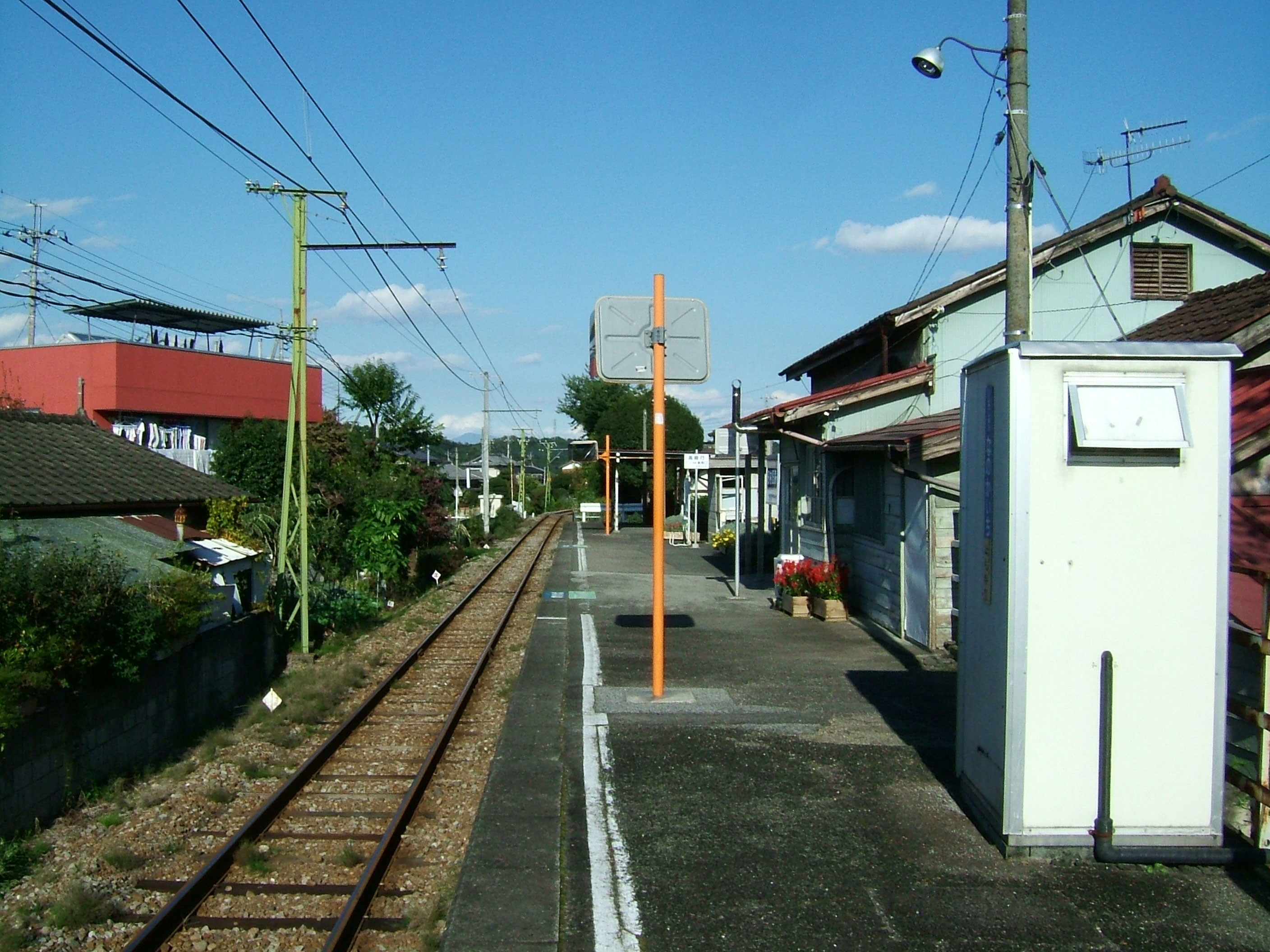 Jōshū-Nanokaichi Station platform (Jōshin Dentetsu Jōshin Line)